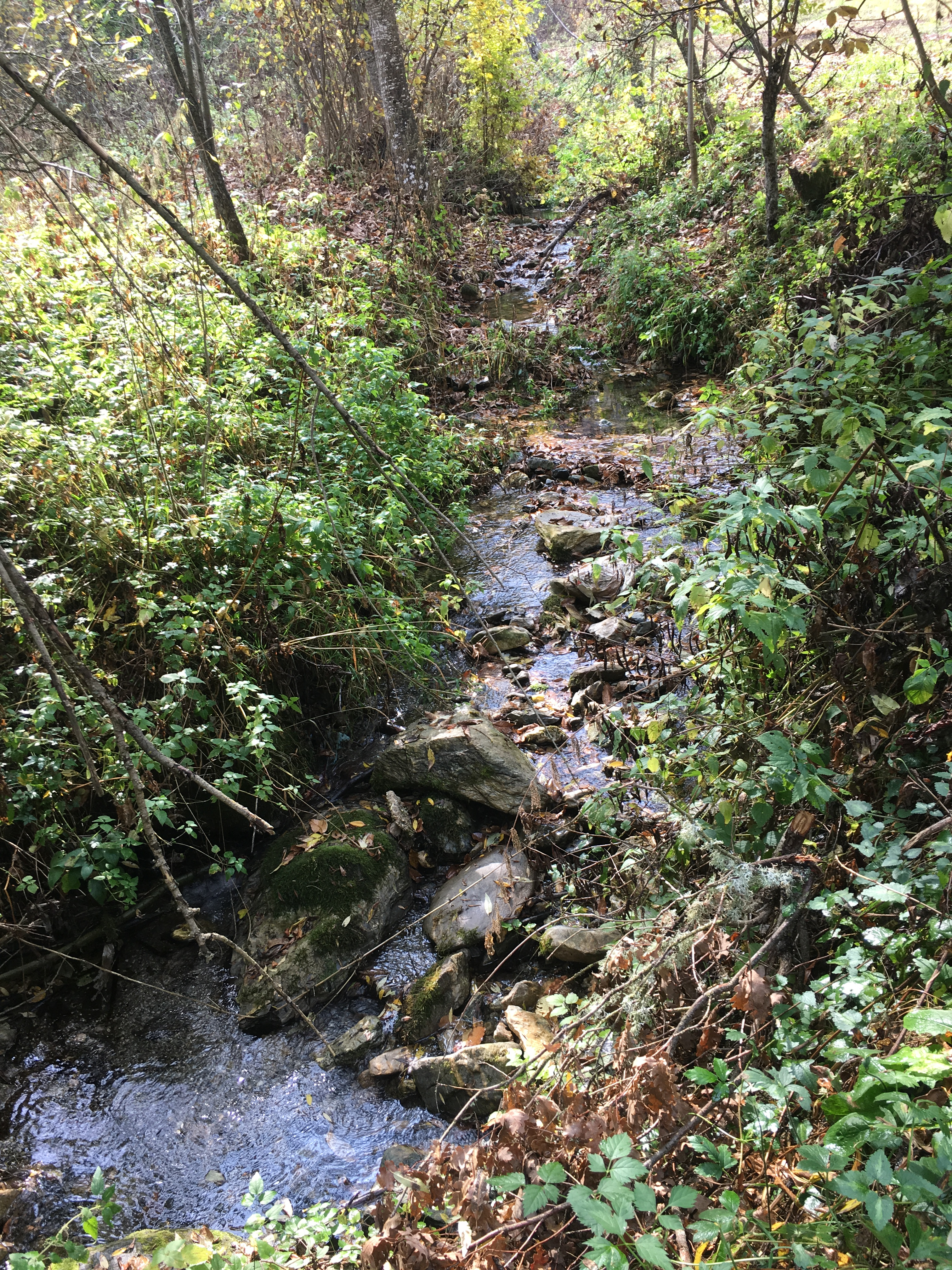 Wikiexpedition to Kopačka